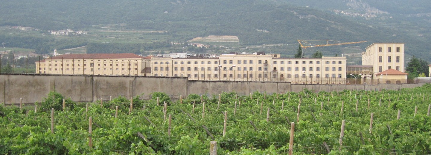 tobacco factory